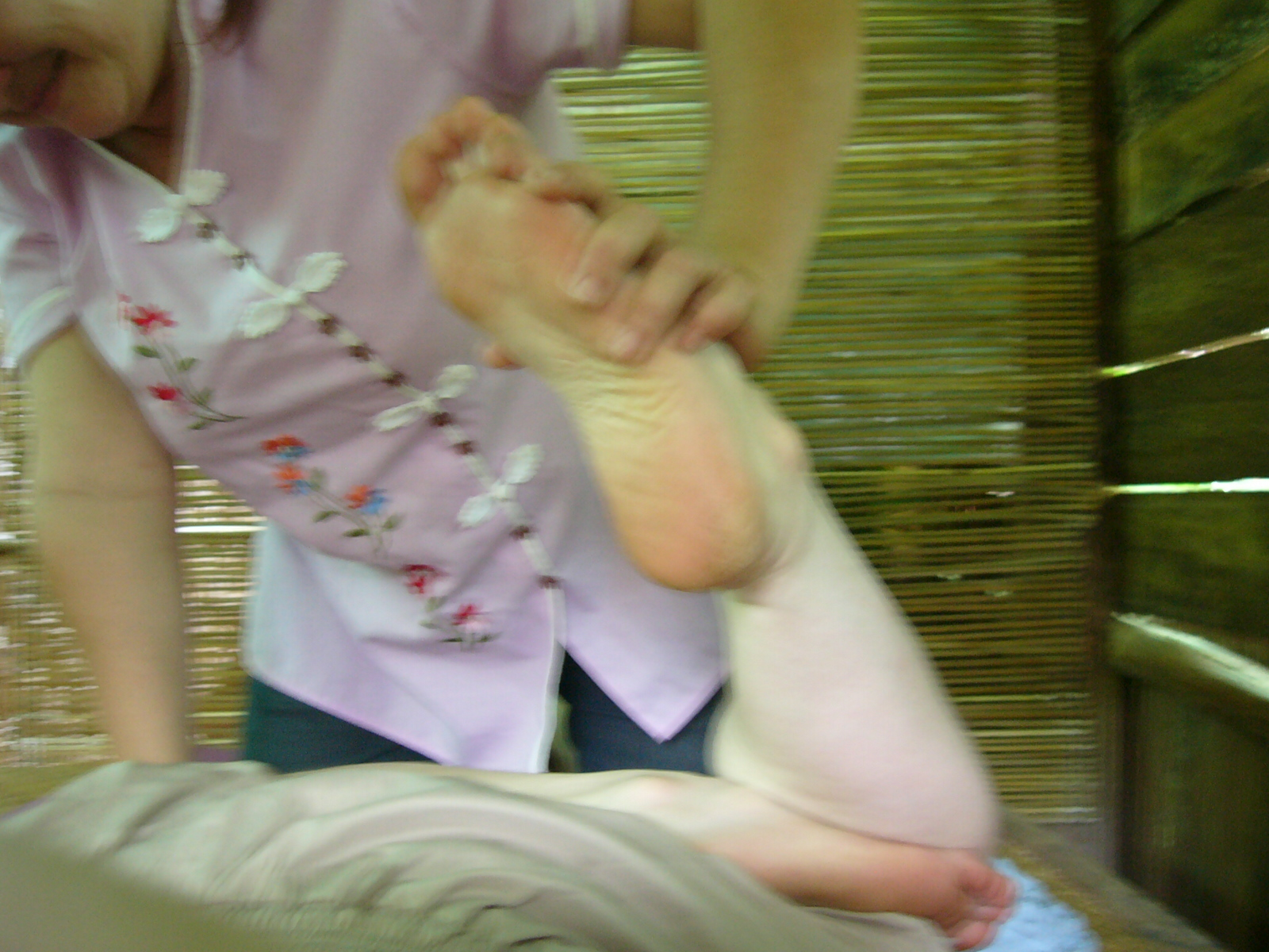 Thai Massage (foot).